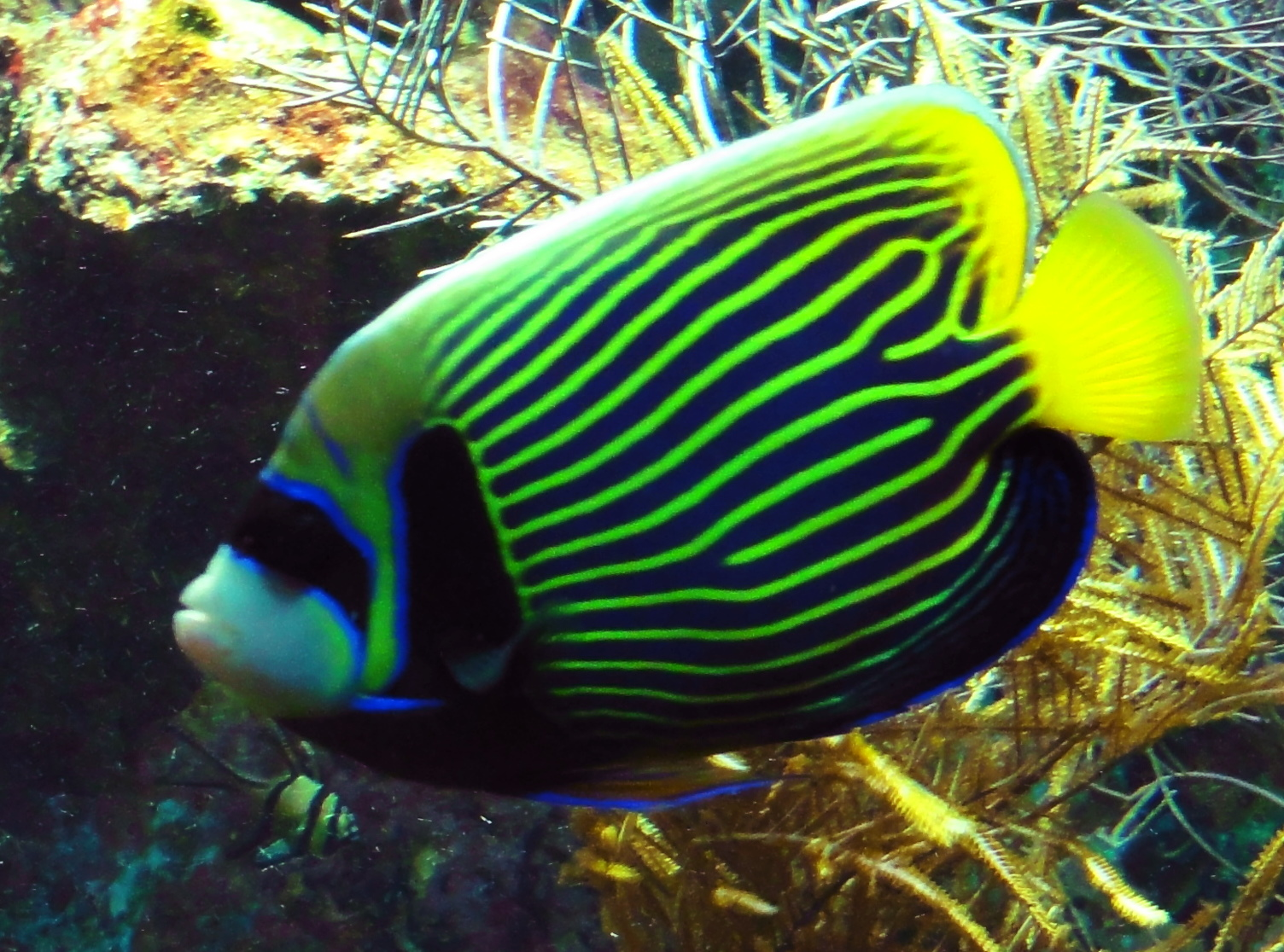 Pomacanthus imperator